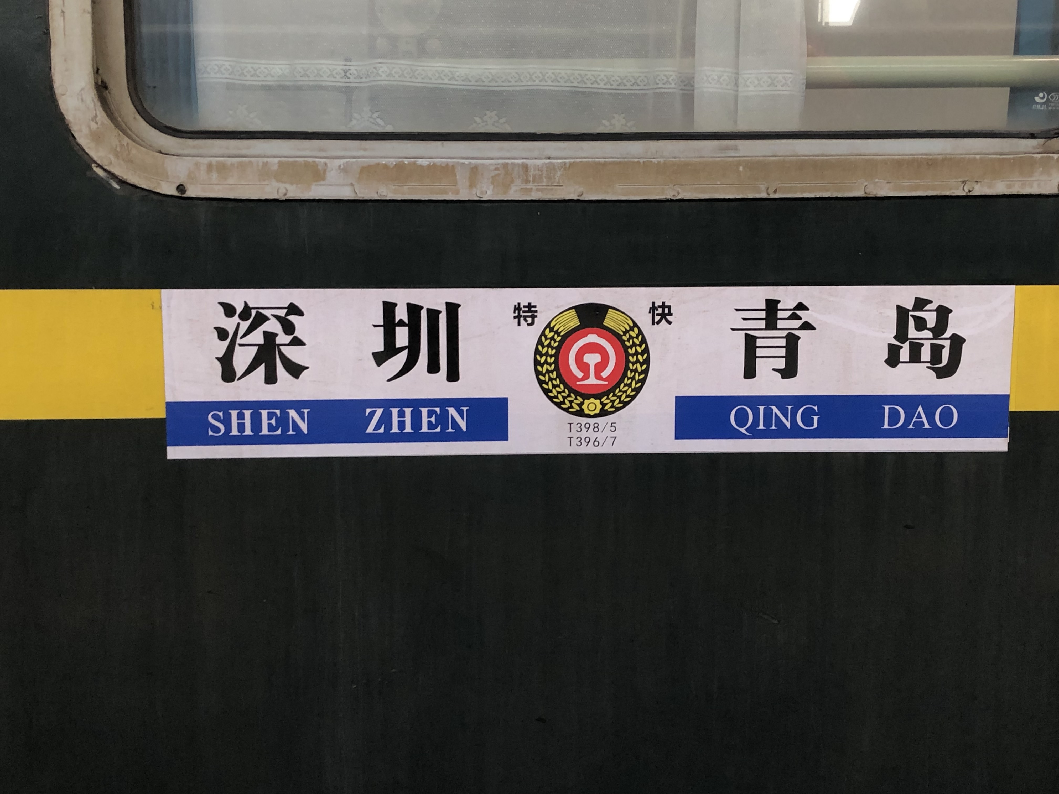 Board of T395-396-397-398, taken at Nanchang station.